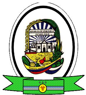 Made in la Villa